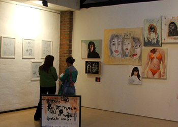 Exhibition Encontros organised by CISCO Associação in 2006